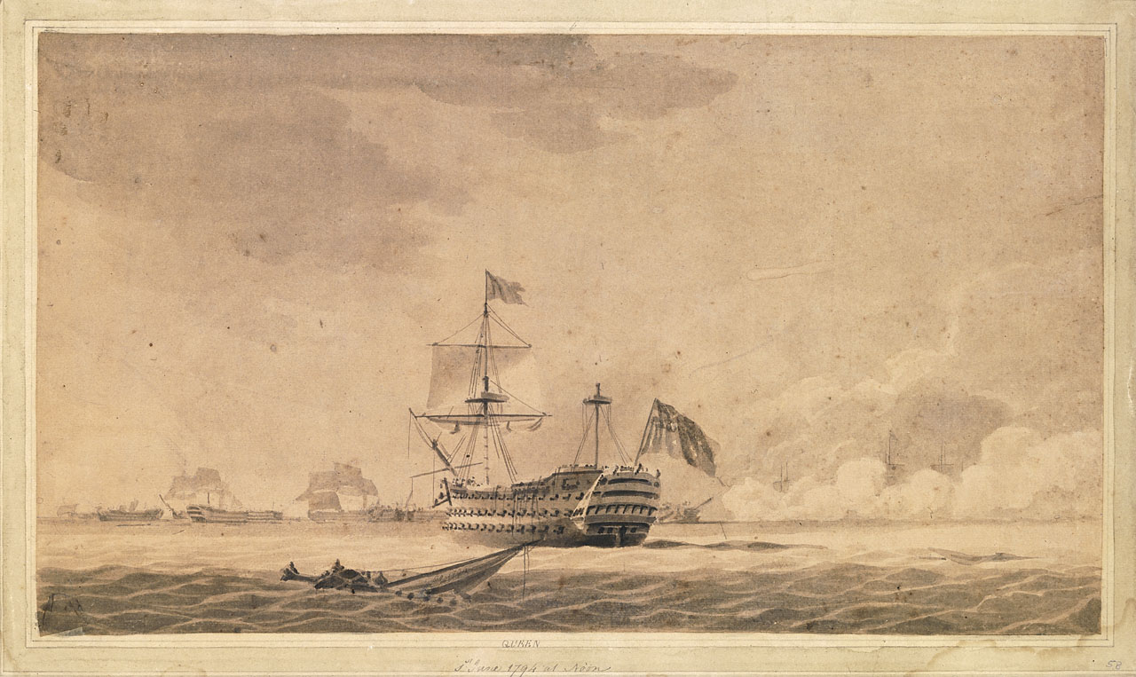 Queen / 1st June 1794 at Noon [Battle of the Glorious First of June 1794]